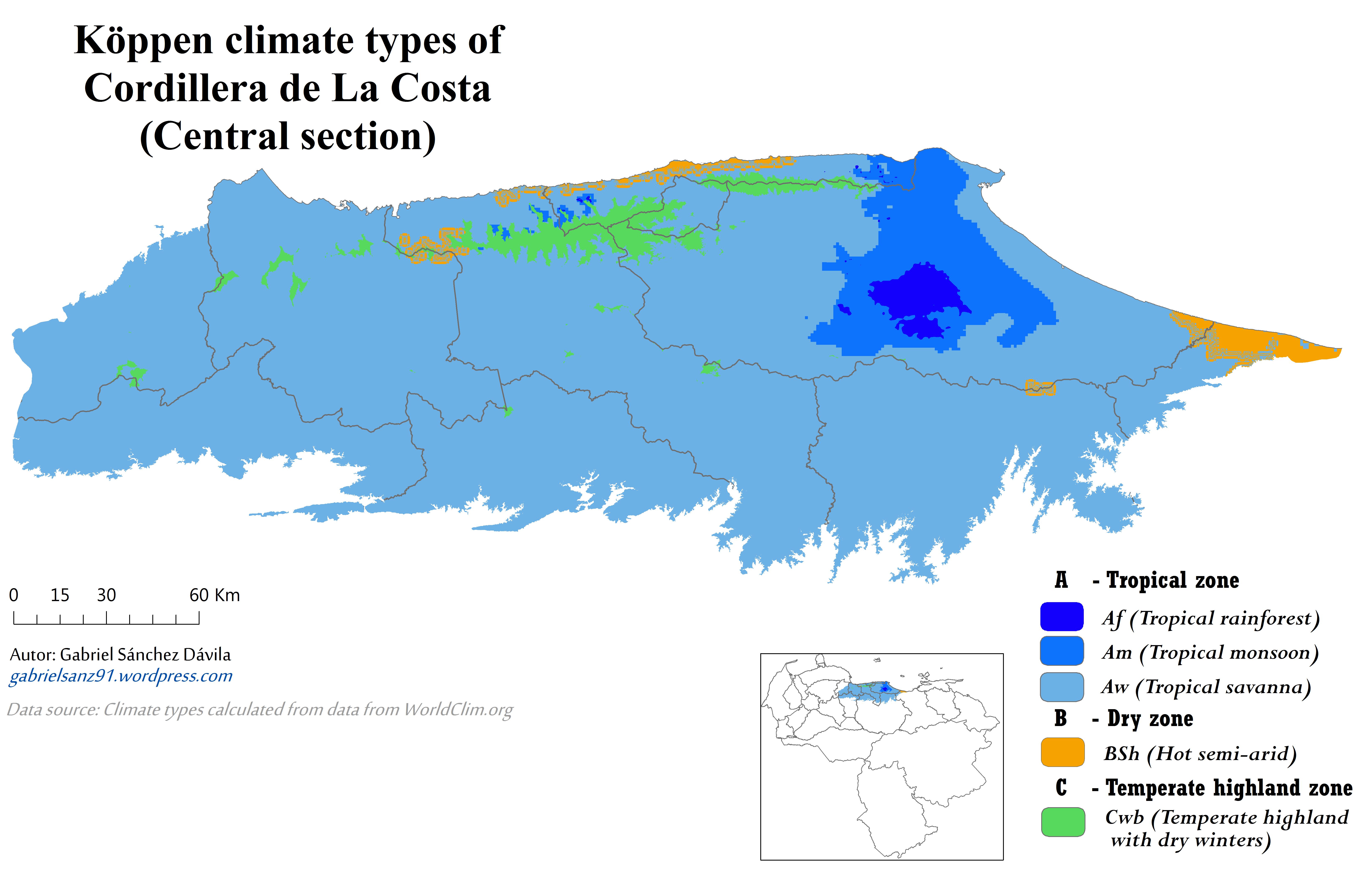 Köppen climate types of Venezuelan Coastal Range (Central section)